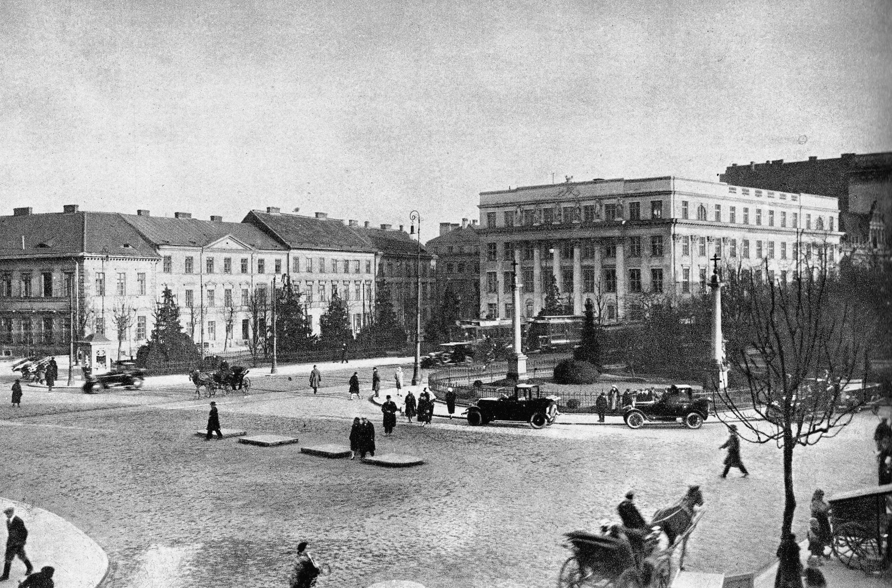 Three Crosses Square in Warsaw